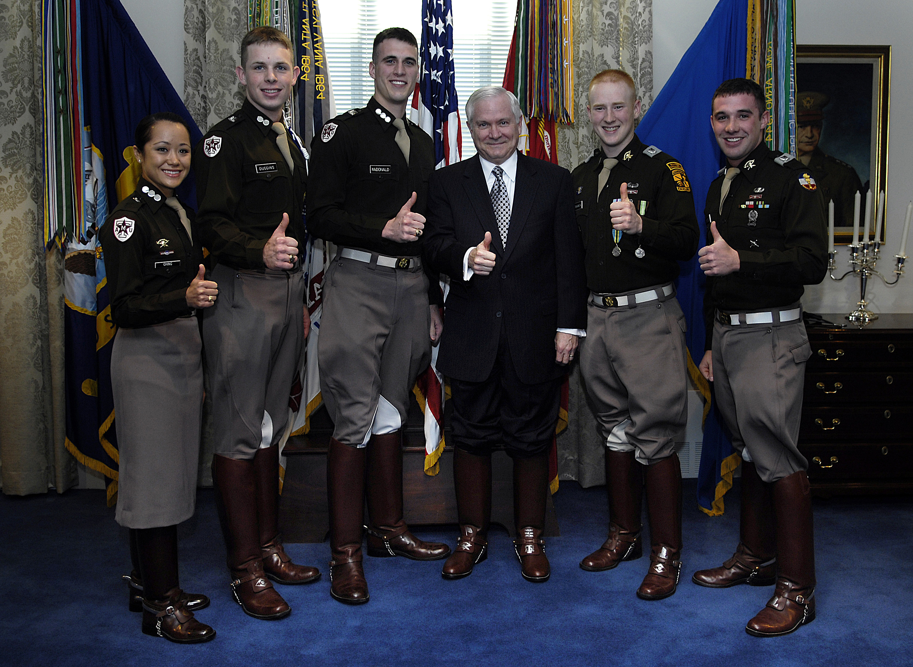 Secretary of Defense Robert Gates and members of Texas A&M University's Corps of Cadets give the traditional "Gig'em" sign as they pose for a photo at the Pentagon March 14, 2007. In 1930 the Aggies of Texas A&M started the tradition of school hand signs in the Southwest Conference. The cadets visited the Pentagon to present Gates with a pair of signature senior boots to commemorate his service as president of the university from 2002-2006. DoD photo by Cherie A. Thurlby. (Released) (Released to Public)